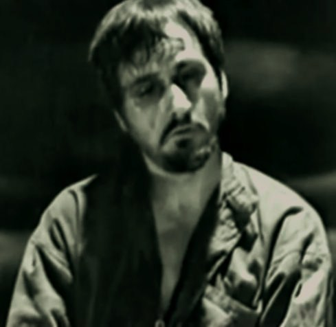 Otto Matieson in Beau Ideal - cropped screenshot